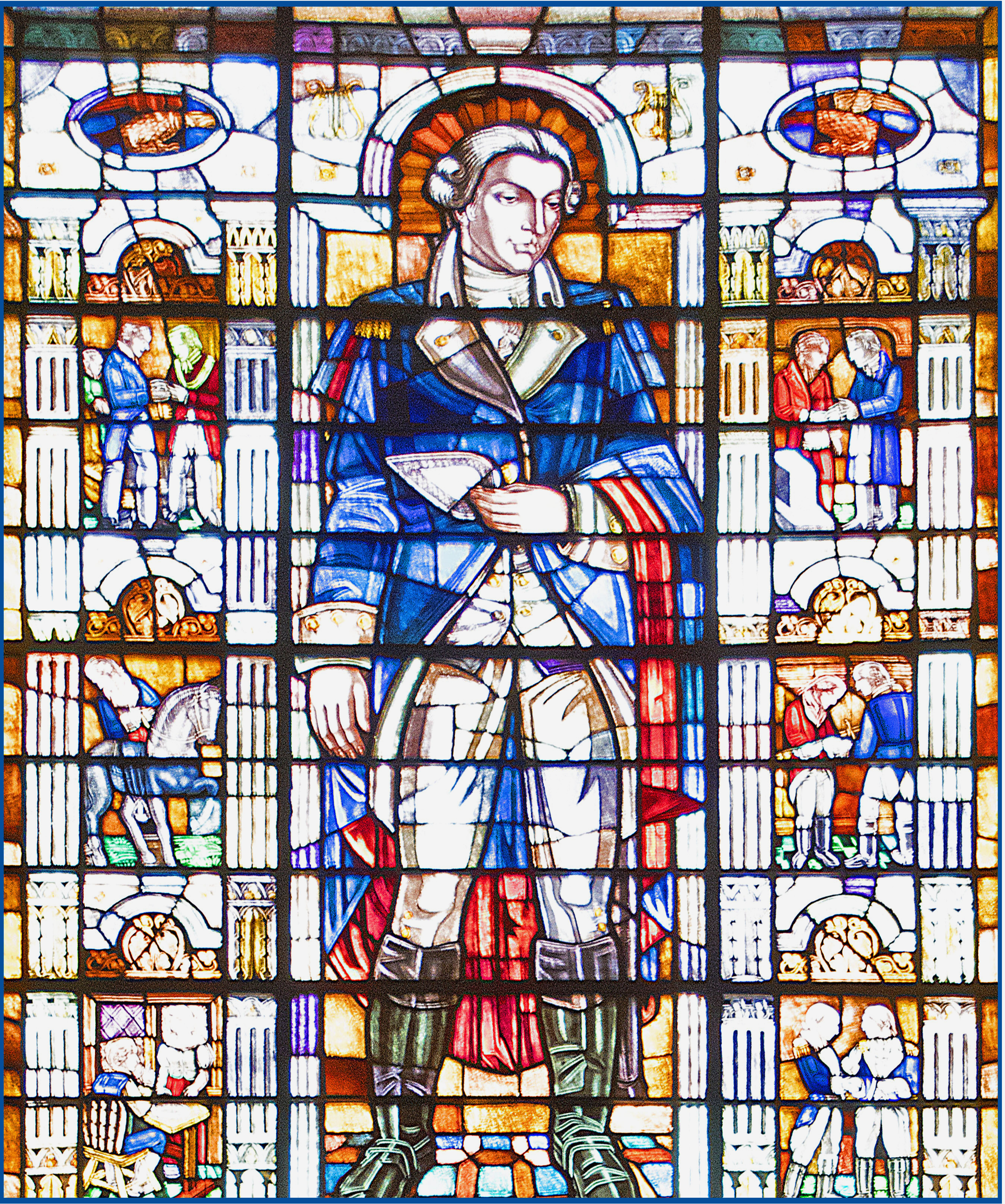 'Lafayette' -- Stained Glass Window in the Main Hall of the George Washington Masonic National memorial Alexandria (VA)